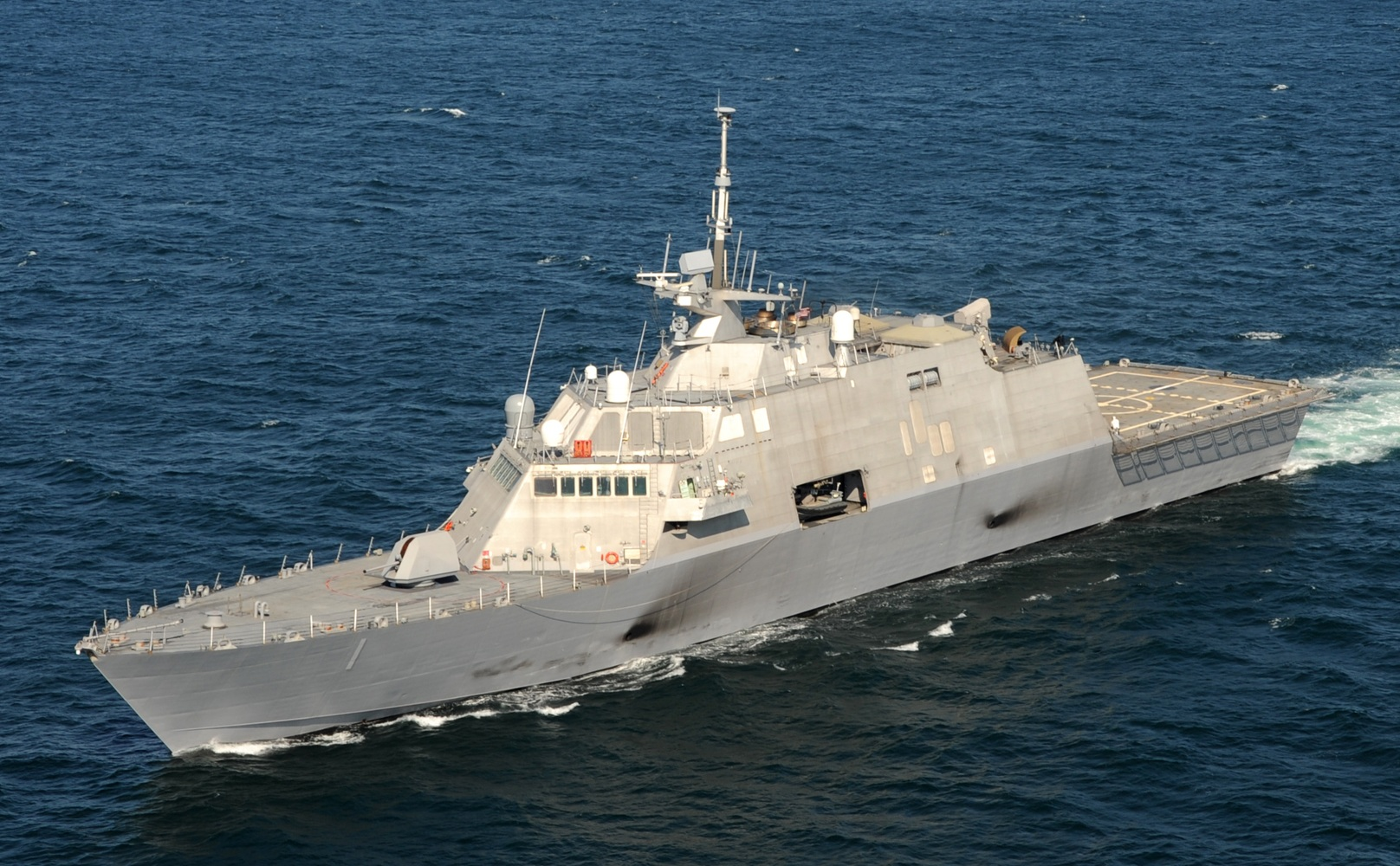 The littoral combat ship USS Freedom (LCS 1) conducts flight deck certification with an MH-60S Sea Hawk helicopter assigned to the Sea Knights of Helicopter Sea Combat Squadron (HSC) 22.